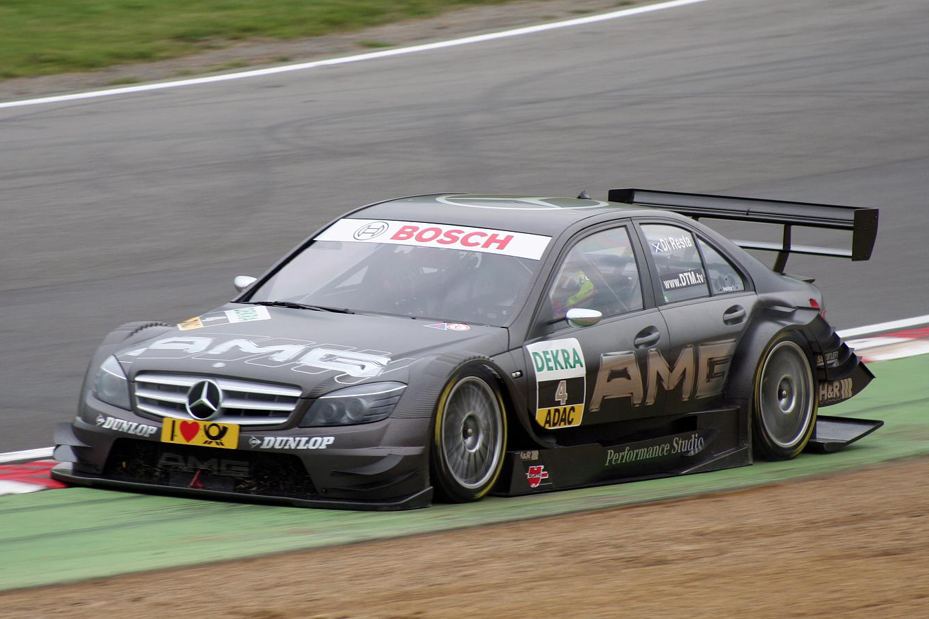 Paul di Resta at Brands Hatch (2008).